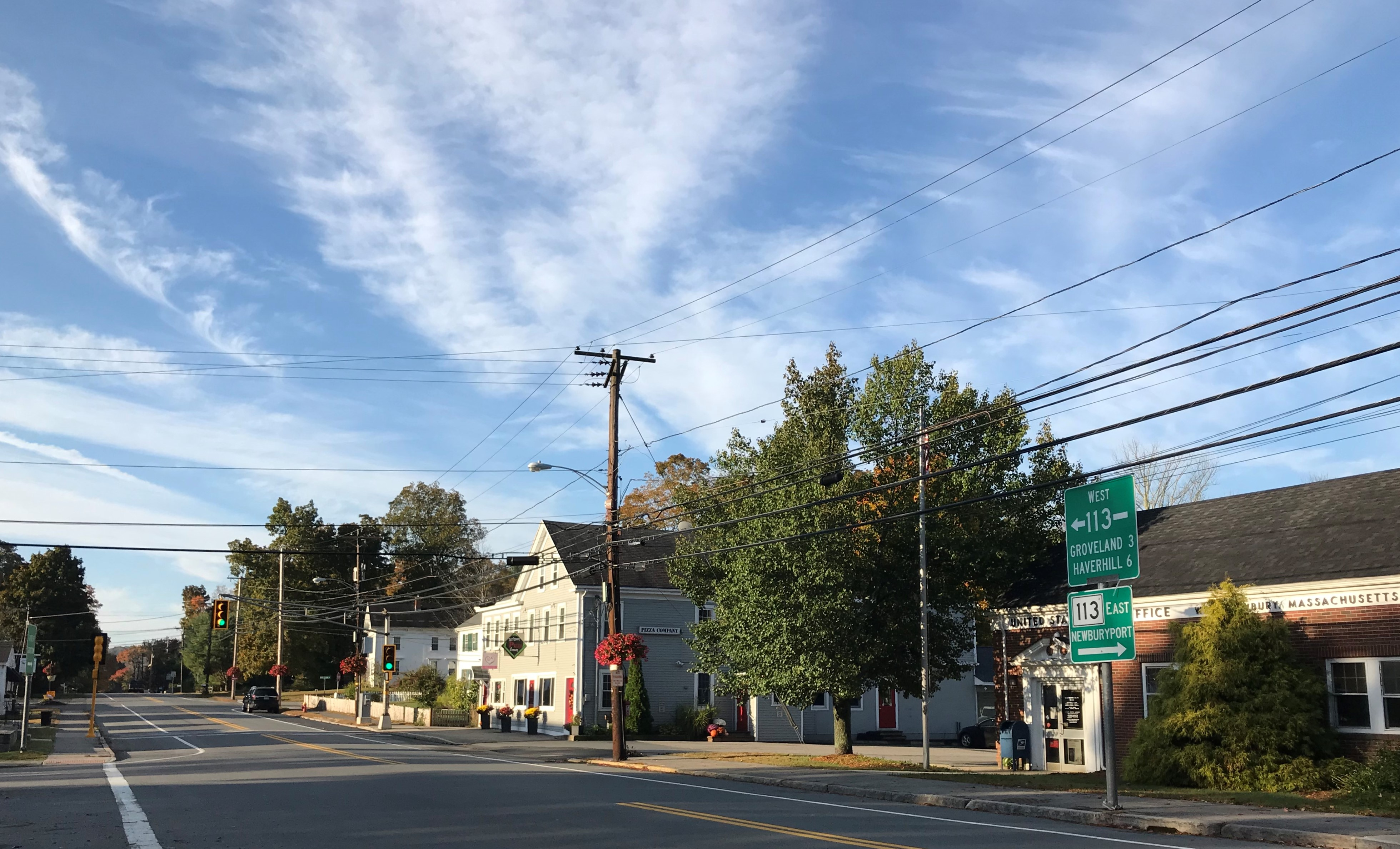 West Newbury Town Center: Post Office, West Newbury Pizza